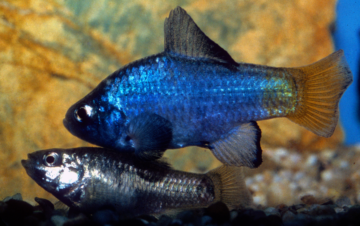 Cyprinodon macularius tactile stimulation in courtship